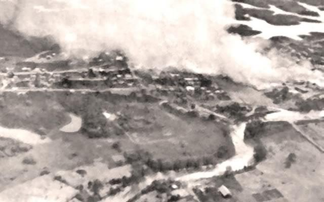 Image of war in Ecuador